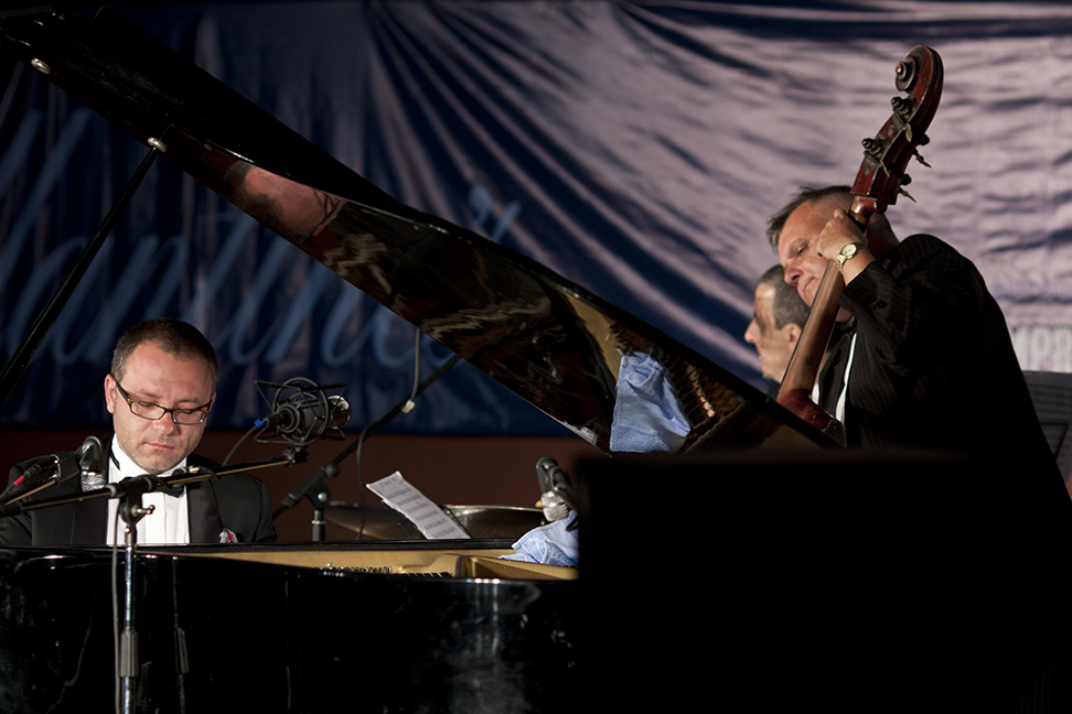 Angel Zaberski Trio performing at Apolonia 2010 (Tribute to Oscar Peterson)concert Ангел Заберски Трио по време на концерта в памет на Оскър Питерсън, Аполония 2010